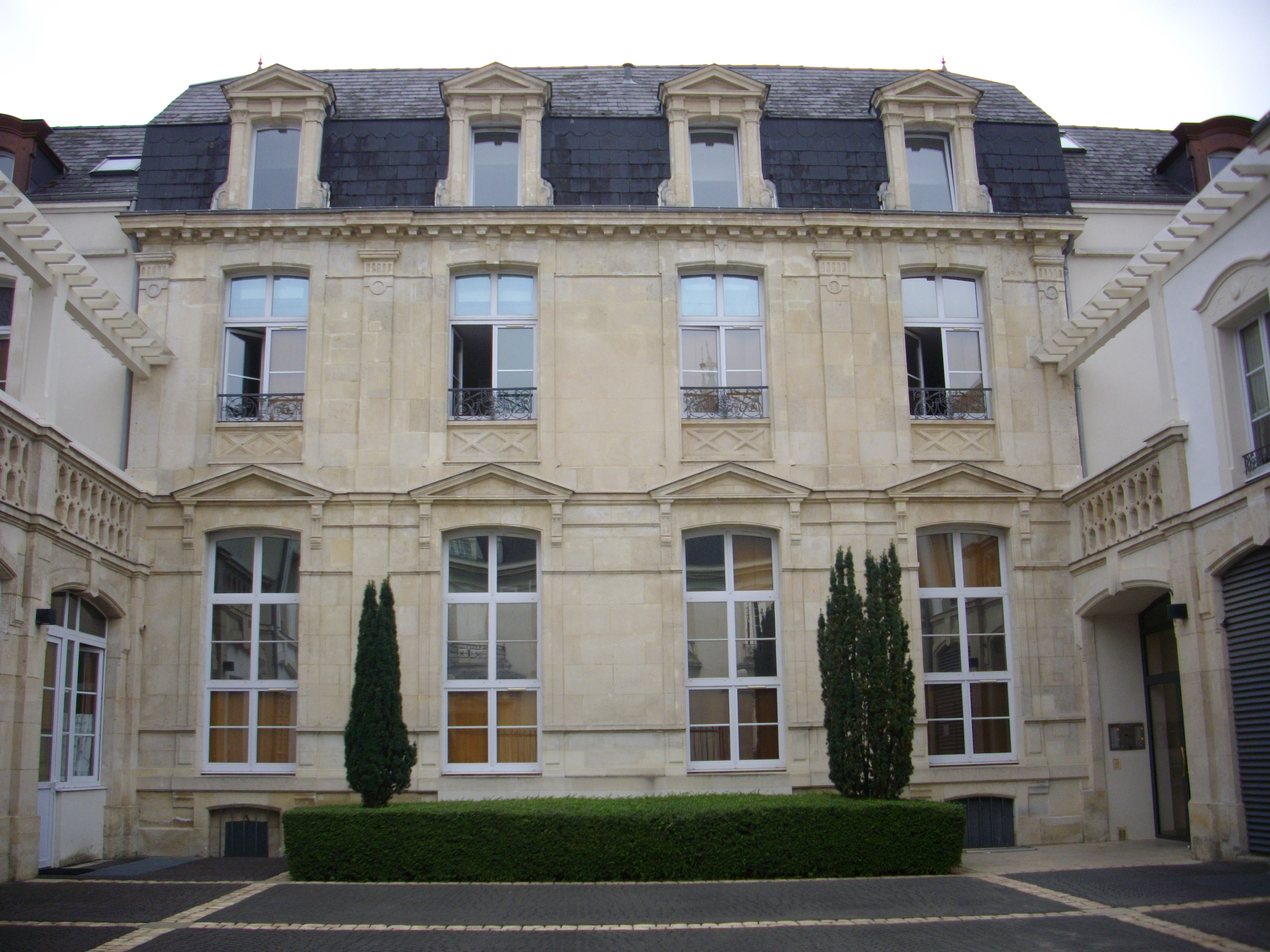 Building, 16 Harvests street in Reims (Marne, France)